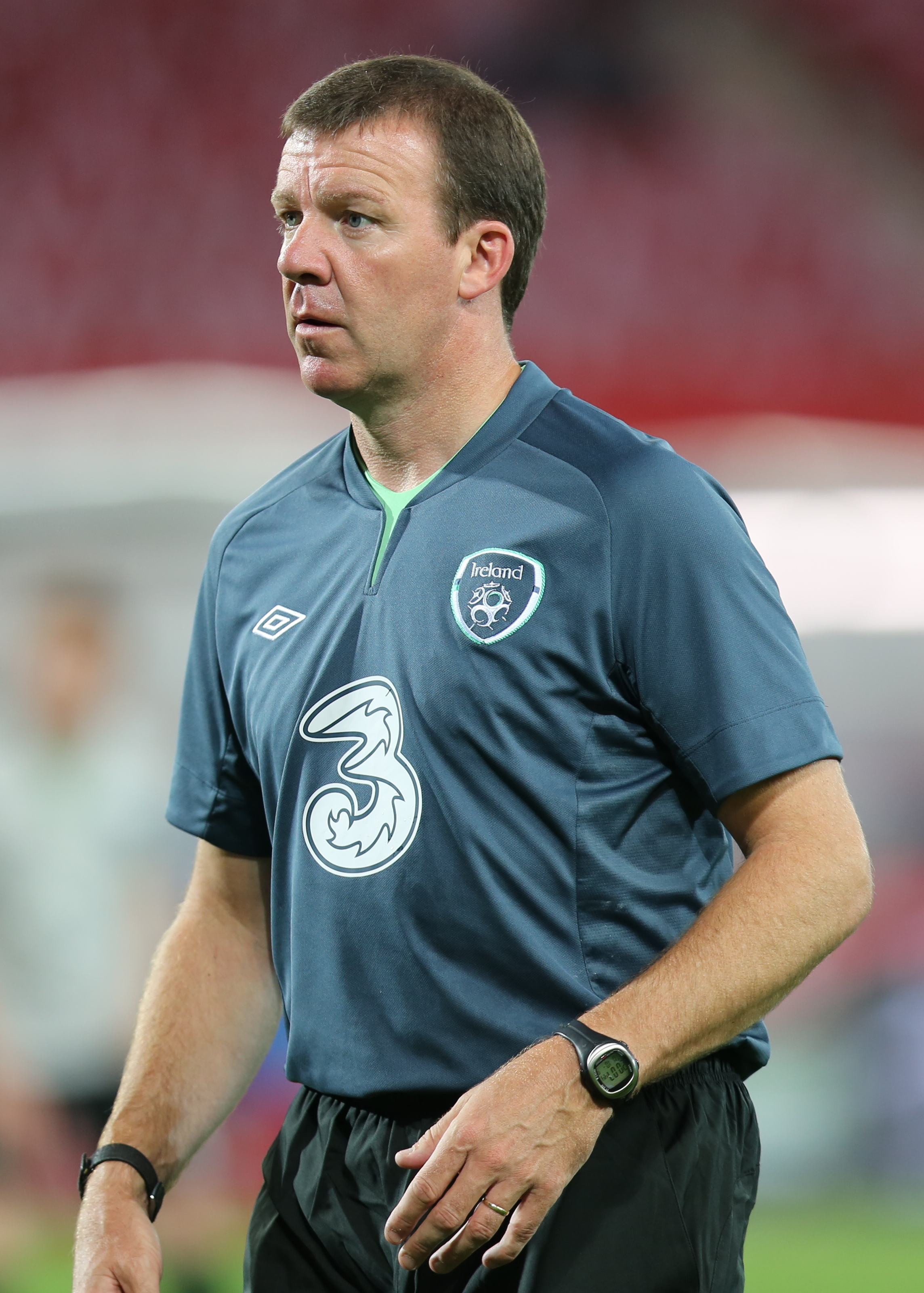 2014 FIFA World Cup qualification (UEFA), Group C: Republic of Ireland national football team at 10. September 2013 before the match against the Austria national football team (0:1) in the Ernst-Happel-Stadion in Vienna. Here: Alan Kelly junior, Irish goalkeeping coach. The making of this work was supported by Wikimedia Austria. For other files made with the support of Wikimedia Austria, please see the category Supported by Wikimedia Österreich.